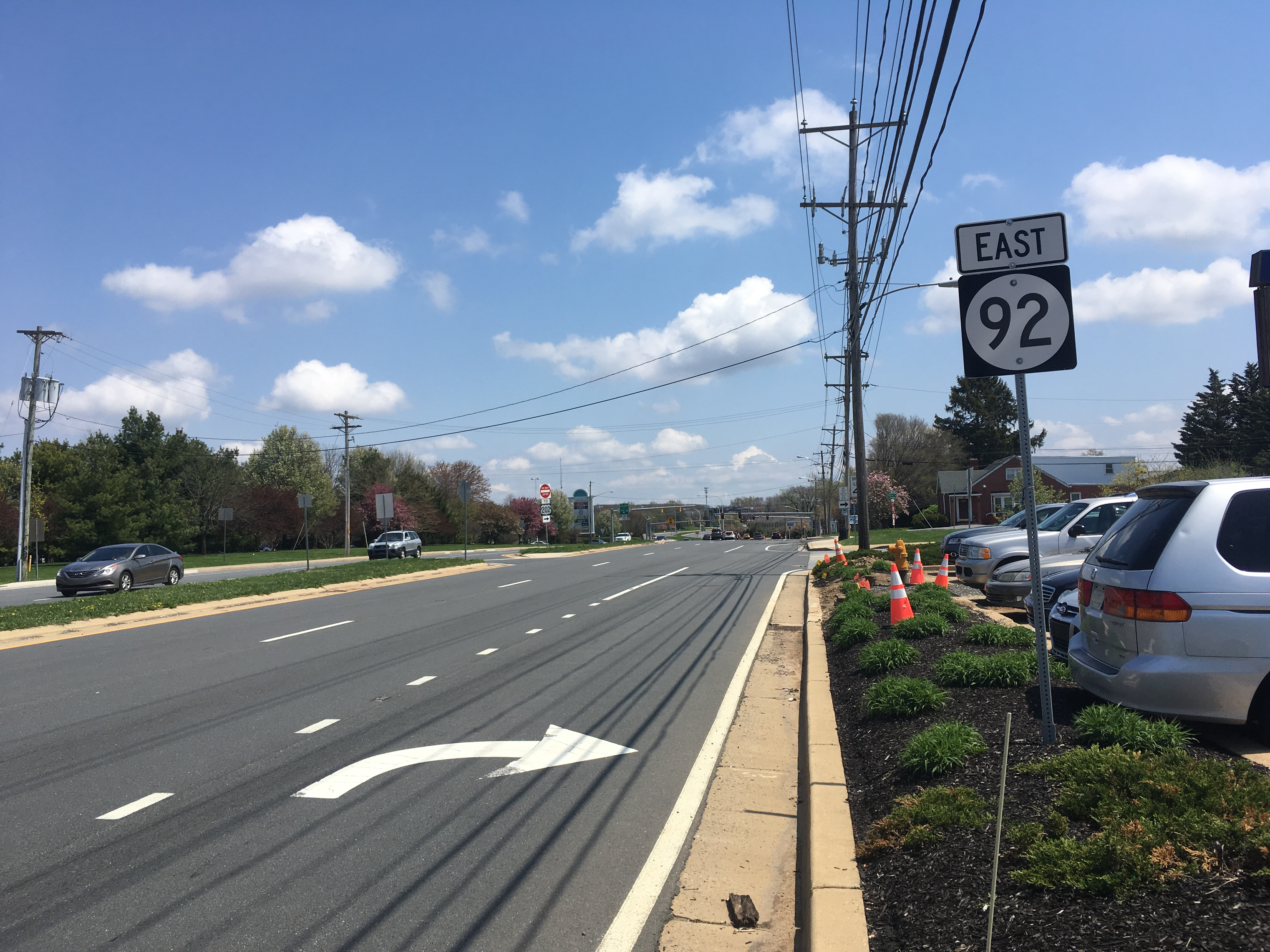 Eastbound Delaware Route 92 (Naamans Road) past the intersection with U.S. Route 202 (Concord Pike) north of Wilmington, Delaware